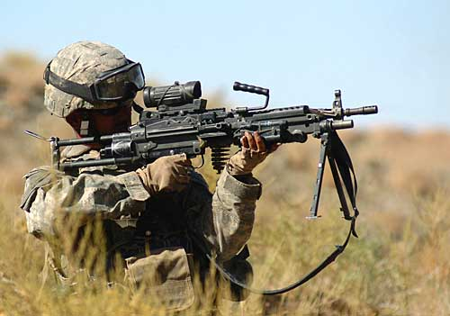 U.S. Army Staff Sgt. Matthew Sheppard uses his M249 squad automatic weapon to destroy a Taliban safehouse in Koshk Kowl, Afghanistan, Oct. 4, 2005. Sheppard is assigned to A Company, 1st Battalion, 325th Airborne Infantry Regiment.